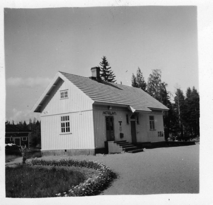 Metsolahti train station in Finland. Photograph taken in the 1950s.